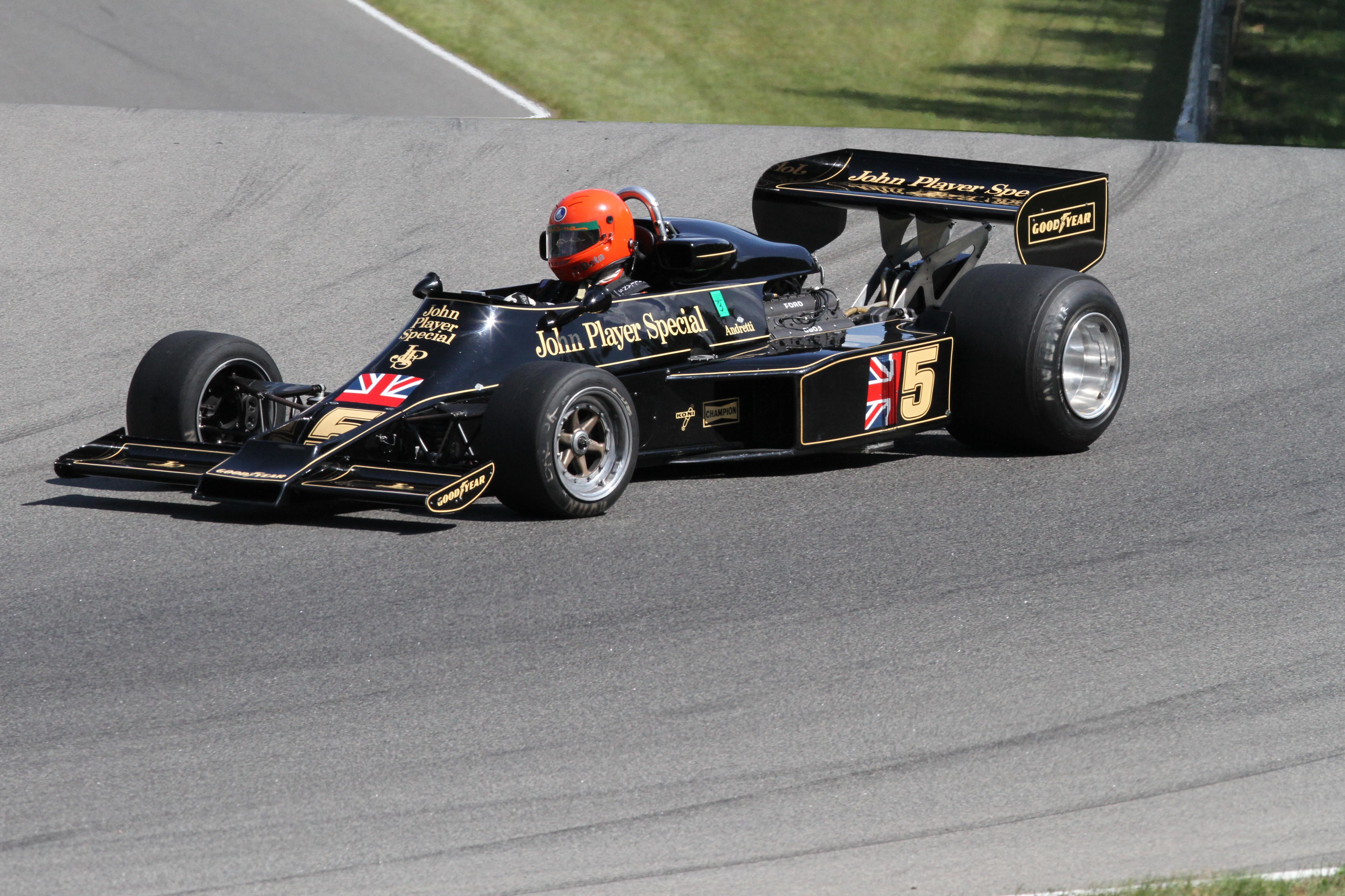 James King at speed in his ex-Mario Andretti Lotus 77 Formula One racing car, at Circuit Mont-Tremblant during the 2010 Legends of Motorsport meeting.